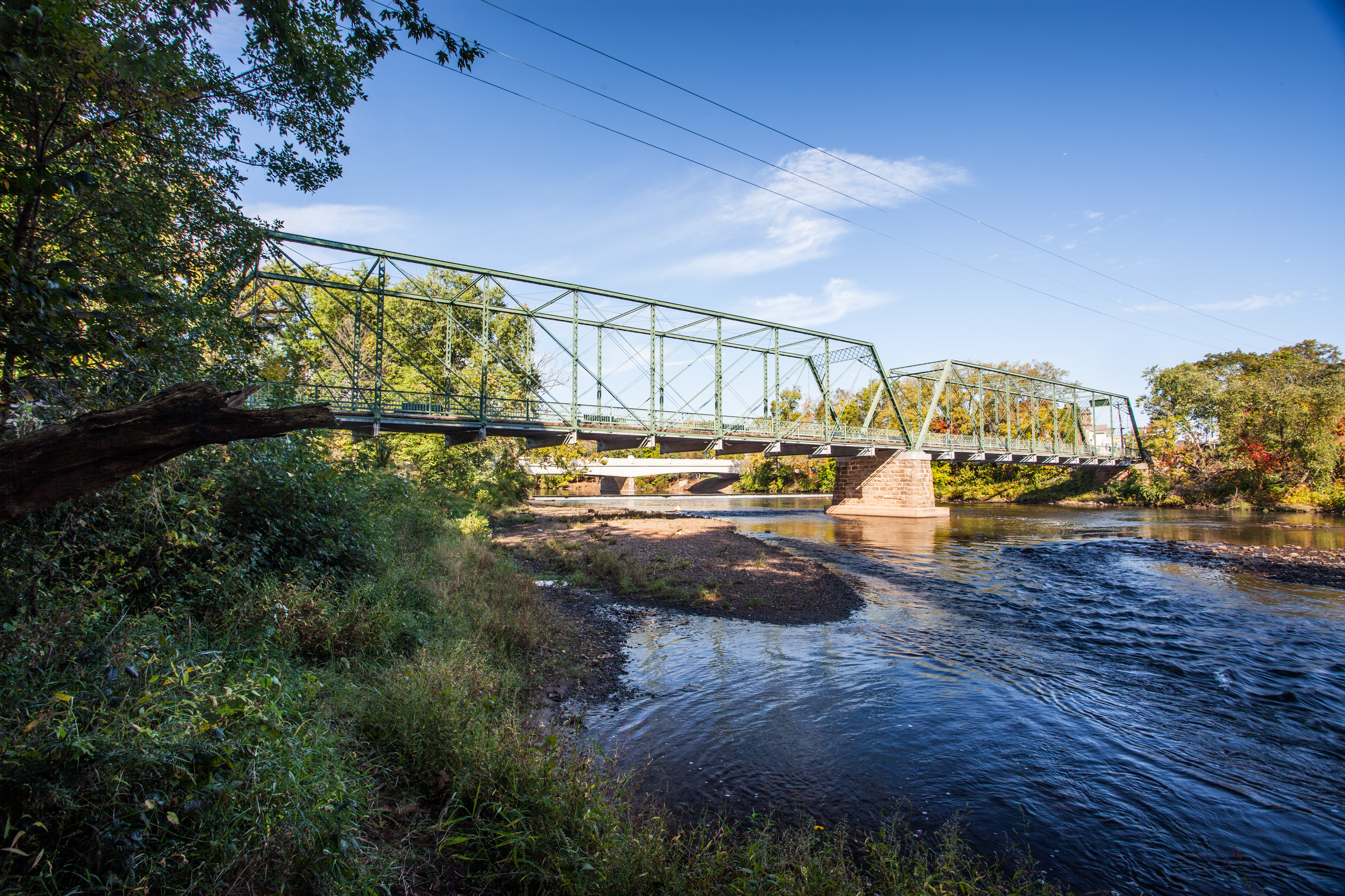 Raritan Bridge Photo from the East side of the original Raritan Bridge in Raritan, NJ on Nevius St. running over the Raritan River.